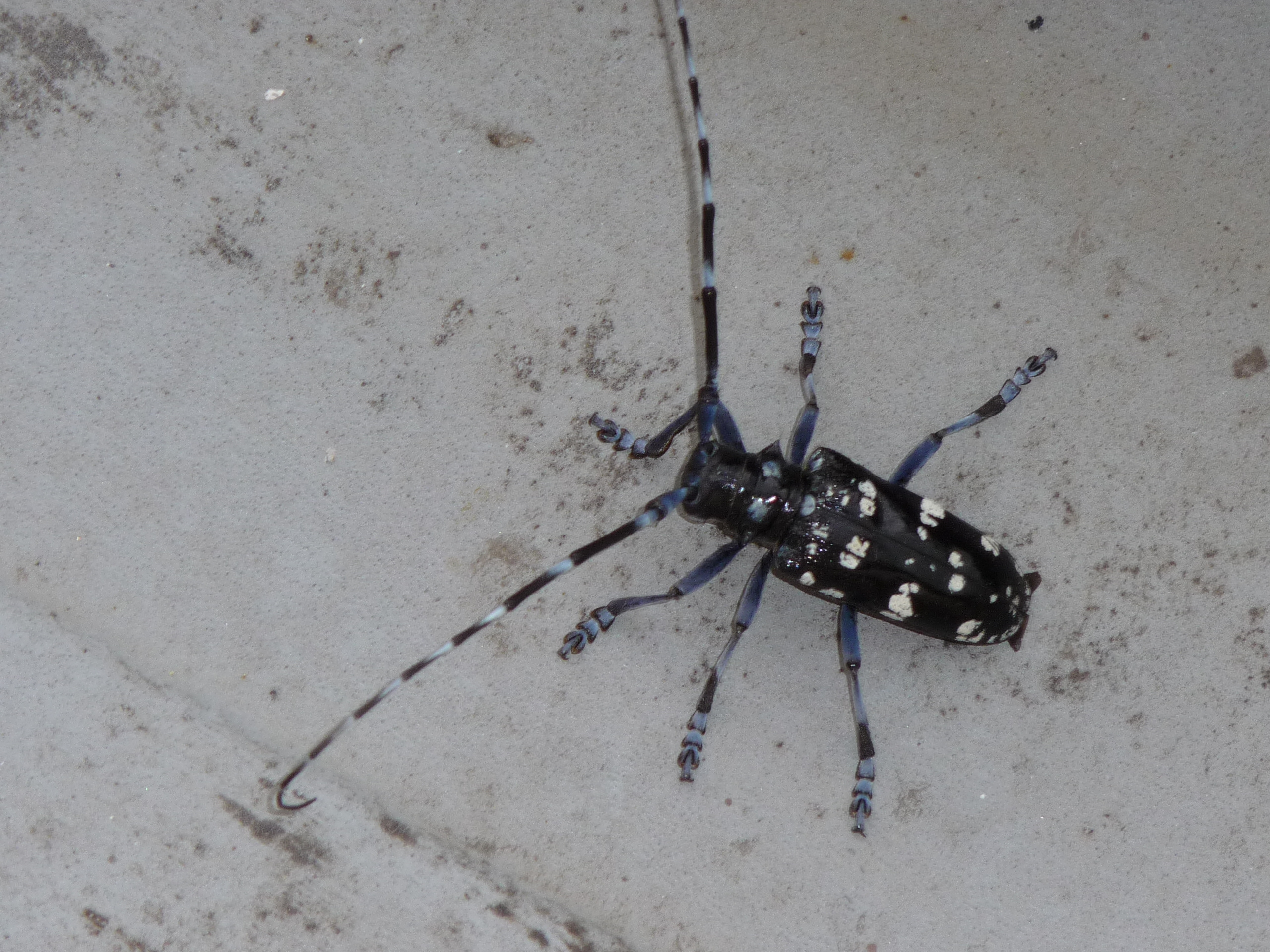 Anoplophora chinensis malasiaca (with legs open) (THOMSON, 1865) in Chiba, japan